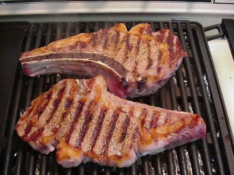 A photo of two ribeye steaks being grilled. Camera: Sony FD-88. Yum [1] Category:Meat images